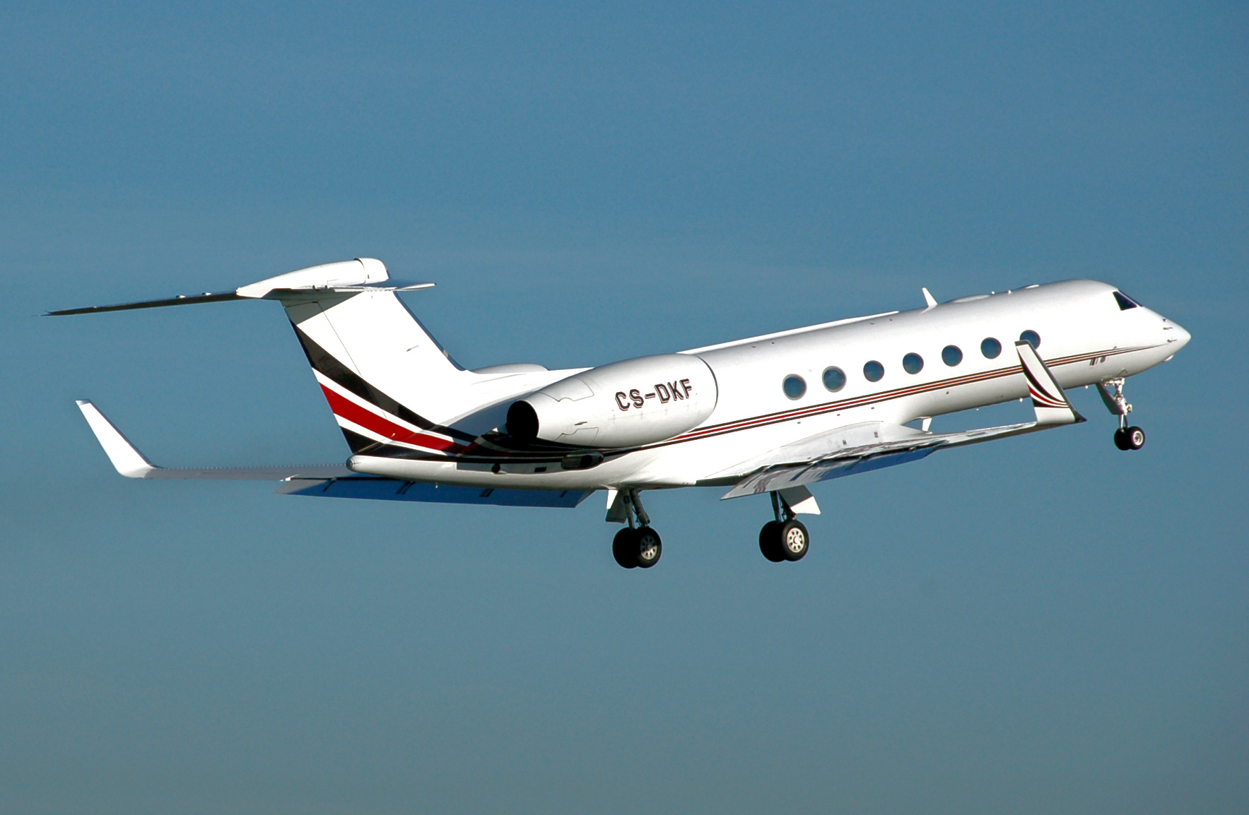 Gulfstream Aerospace Corporation Gulfstream G550 (with Portuguese registration CS-DKF) business jet climbs away from London Luton Airport, England. Operator: Netjets Europe. Photographed by Adrian Pingstone in February 2007 and released to the public domain.